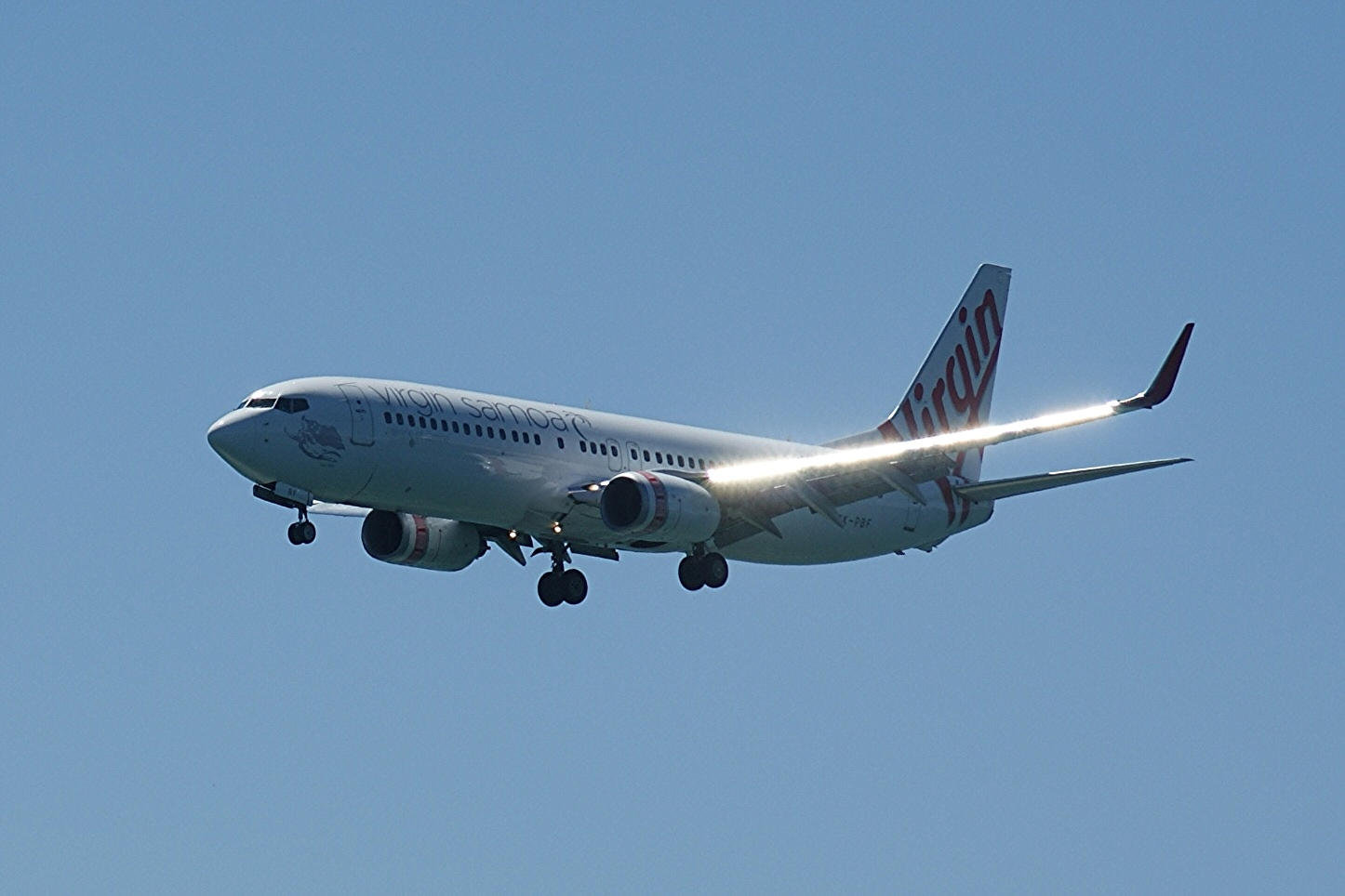 Virgin Samoa Boeing 737-800 ZK-PBF